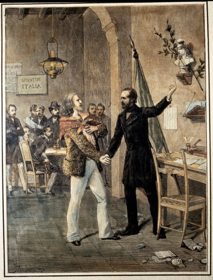 Credit: First meeting between Giuseppe Garibaldi, 1807-1882 and Giuseppe Mazzini, 1805-1872 in Marseille, 1833 / De Agostini Picture Library / A. de Gregorio / The Bridgeman Art Library DGA 502441 Image number: First meeting between Giuseppe Garibaldi, 1807-1882 and Giuseppe Mazzini, 1805-1872 in Marseille, 1833 Title: De Agostini Picture Library / A. de Gregorio Credit: France - 19th century - The first meeting between Giuseppe Garibaldi (1807-1882) and Giuseppe Mazzini (1805-1872) in Marseille, 1833. Artwork-location: Turin, Museo Nazionale Del Risorgimento (History Museum) Description: (19th) Date: Vertical Orientation